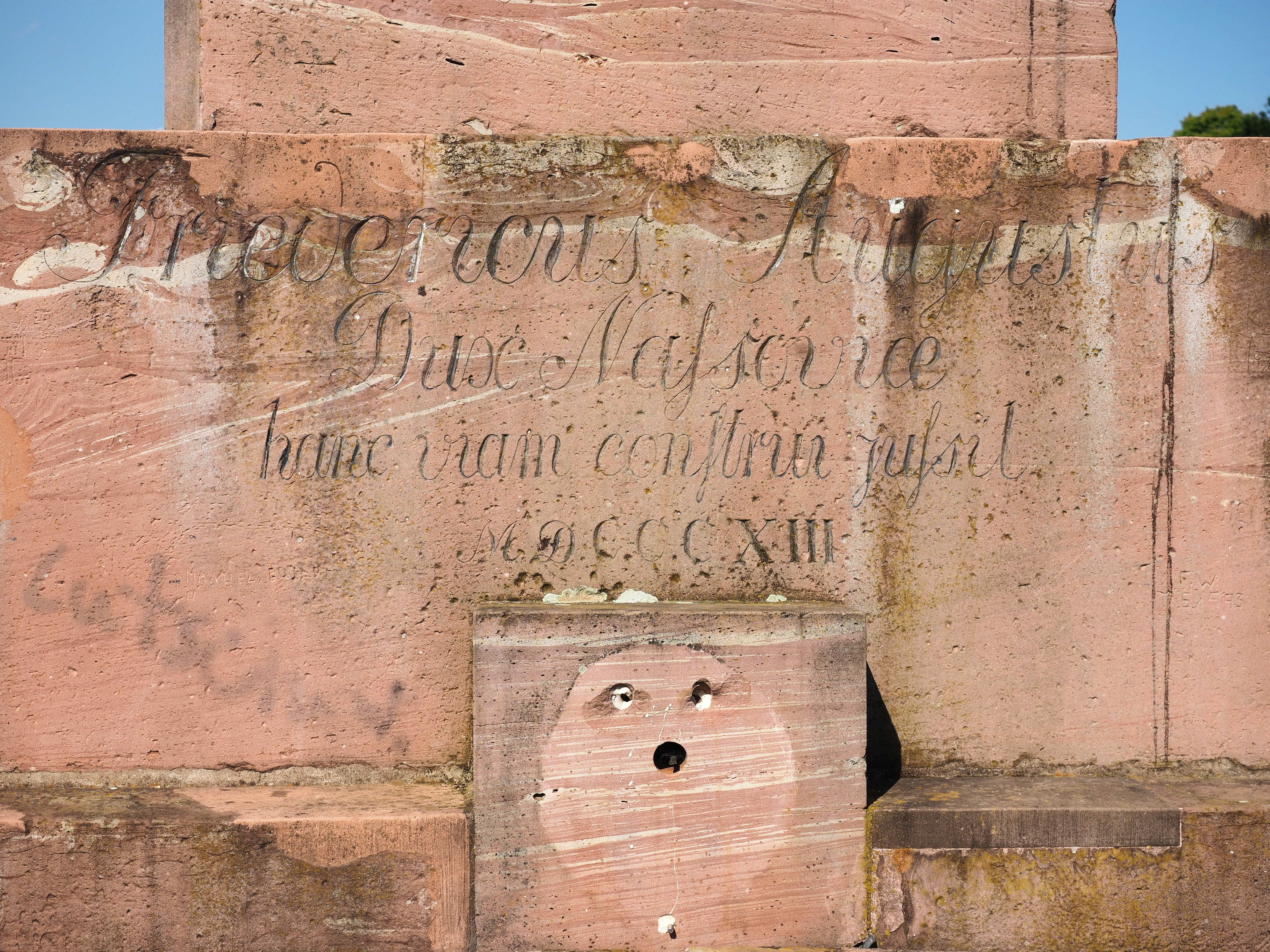 Inscription on the "Wandersmann" memorial